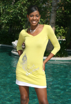 Miss Curacao 2007 - Mckeyla Antoinette Richards in Miss World 2007, Sanya, China